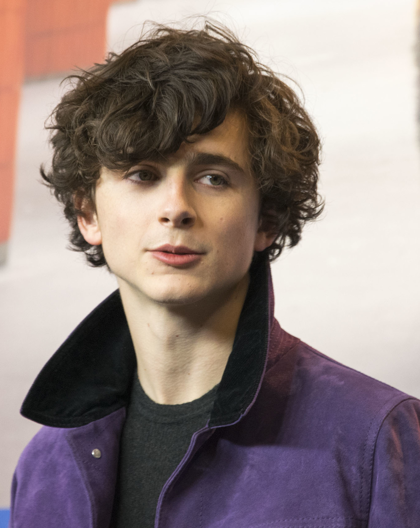 Timothée Chalamet at the press conference of the film Call Me by Your Name at the 2017 Berlin International Film Festival